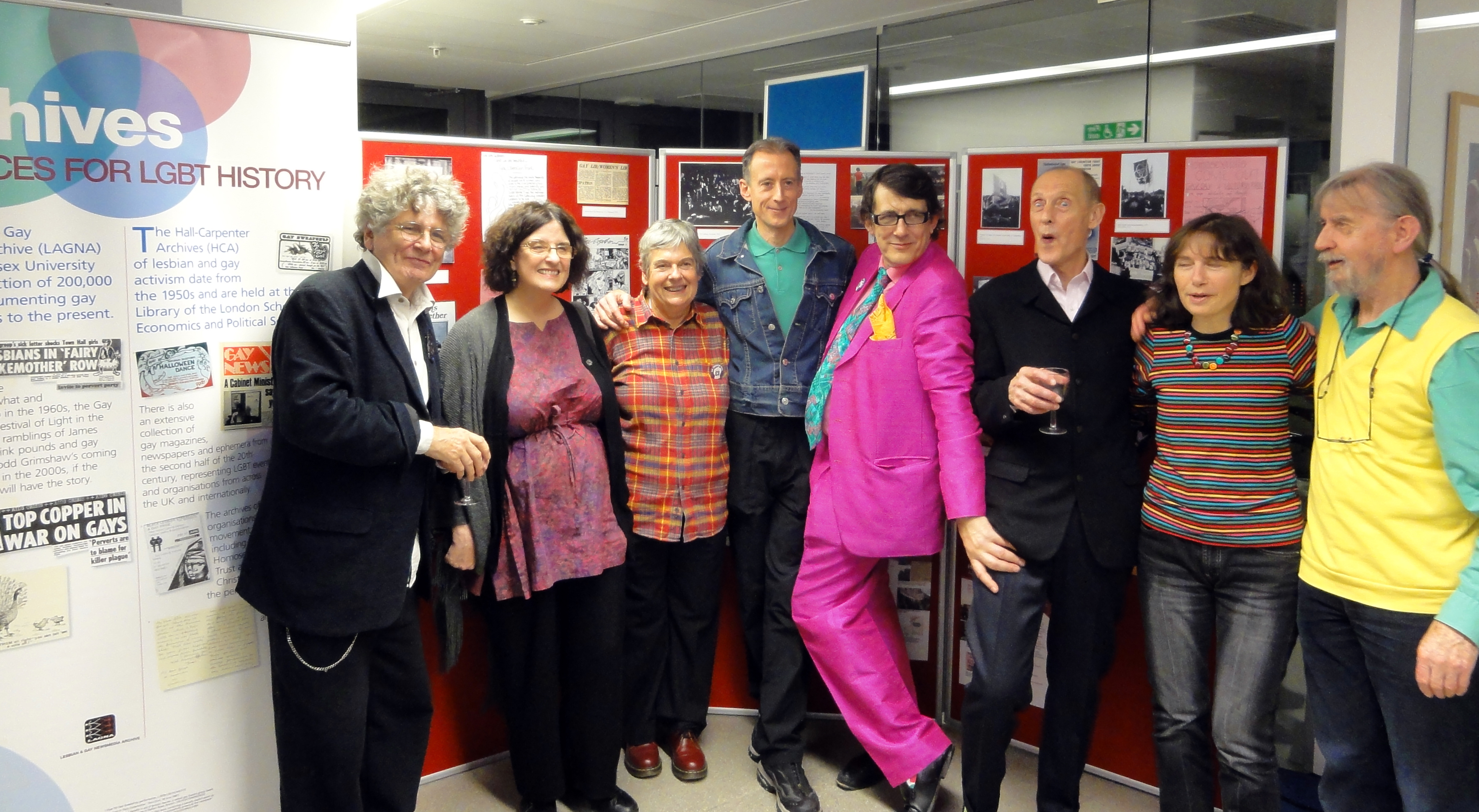 Celebration to mark the 40th anniversary of GLF, 13 October 2010. Arranged by LSE Archives. Photographed are a number of original GLF activists.